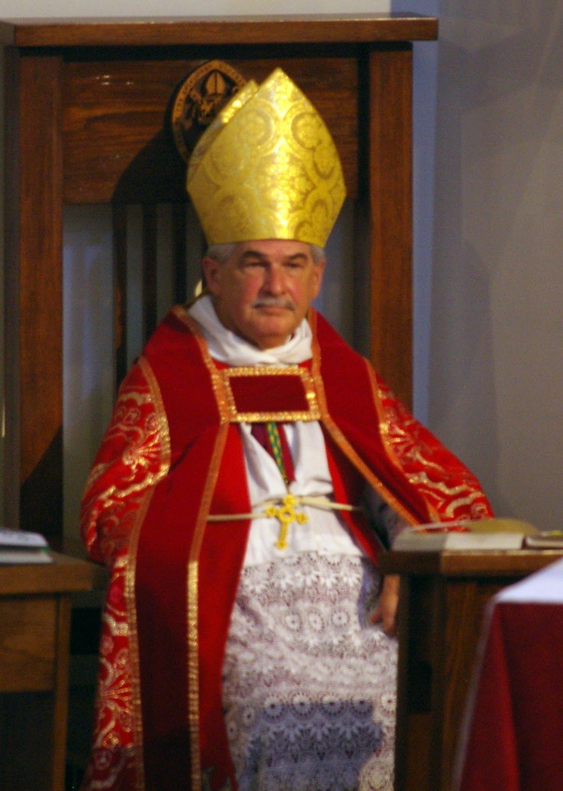 Bishop Jack Iker, in a gold hat and red robes.